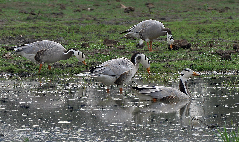 Bar-headed Goose (Anser indicus) at Keoladeo National Park, Bharatpur, Rajasthan, India.